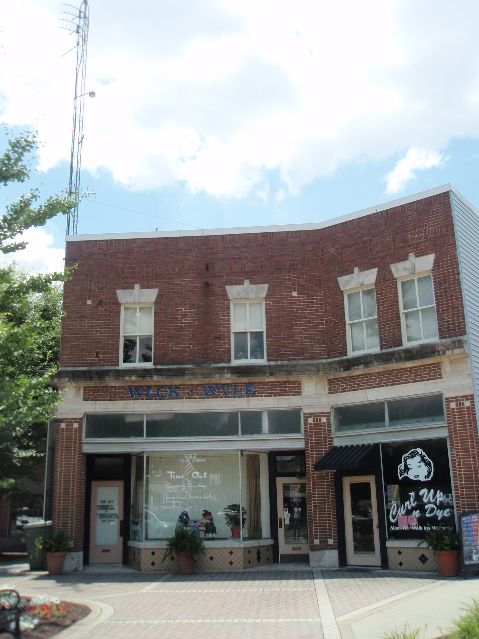 Offices of WLCK - WVLE in Scottsville, Kentucky